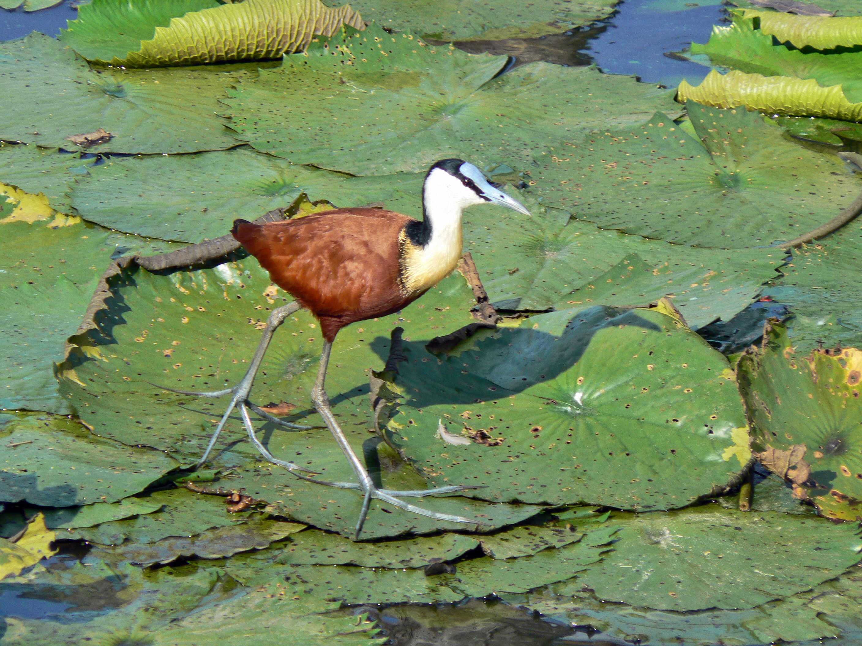 African Jacana (Actophilornis africanus) in Kruger National Park, South Africa.